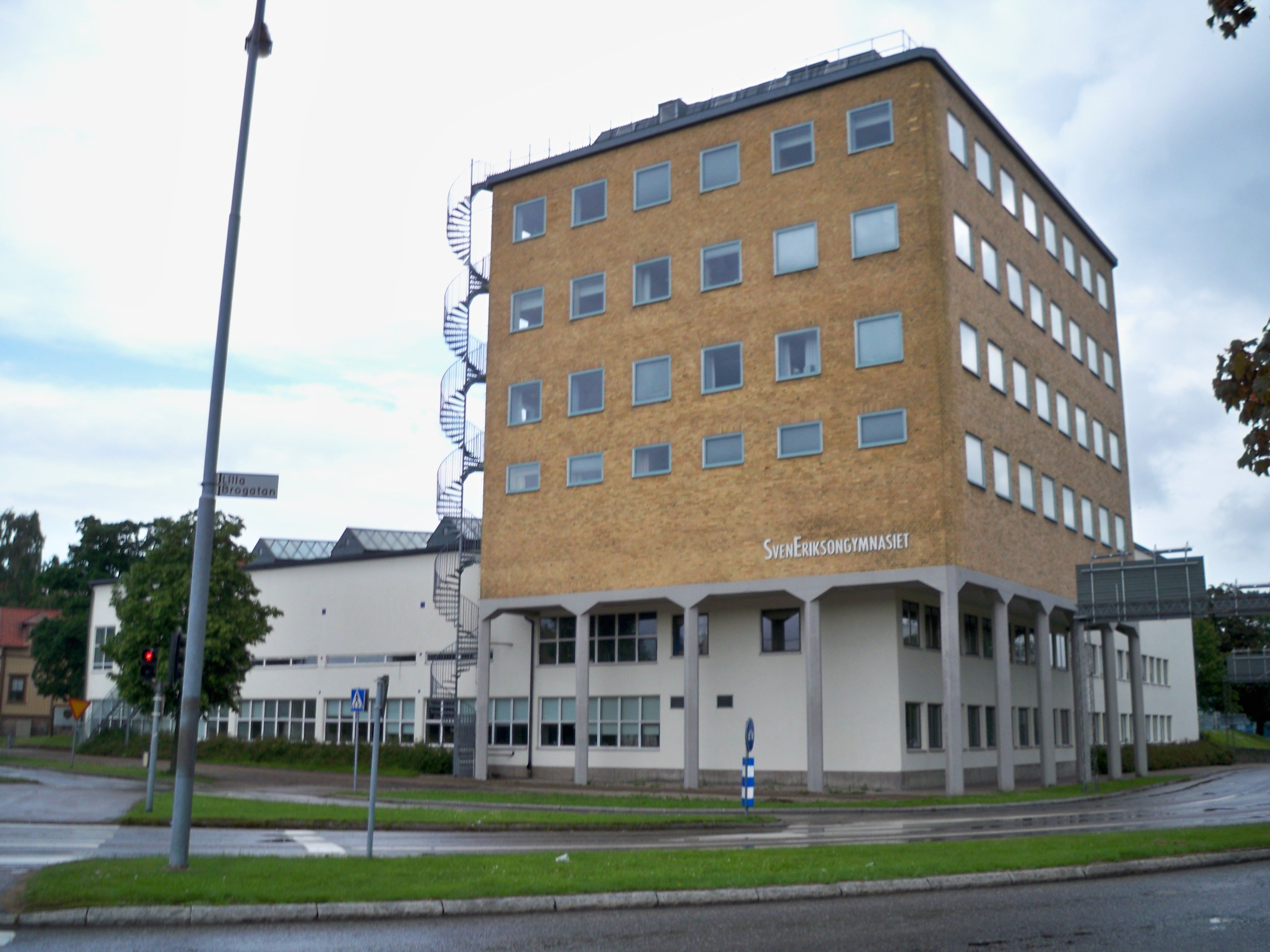 Two school buildings by the Swedish architect Harald Ericson (1890-1972). Nowadays, they are both parts of the highschool Sven Ericsongymnasiet in the city of Borås, Sweden. The white, low building with its factorylike saw-tooth roof with windows was inaugurated in 1935 as Textilinstitutet, an institute for textile studies. The larger, enclosing, and yellow-bricked building with thin, grey pillars was an extension of the same institution and made by the same architect in 1952. The buildings became parts of Sven Ericsongymnasiet in the late 1980's.